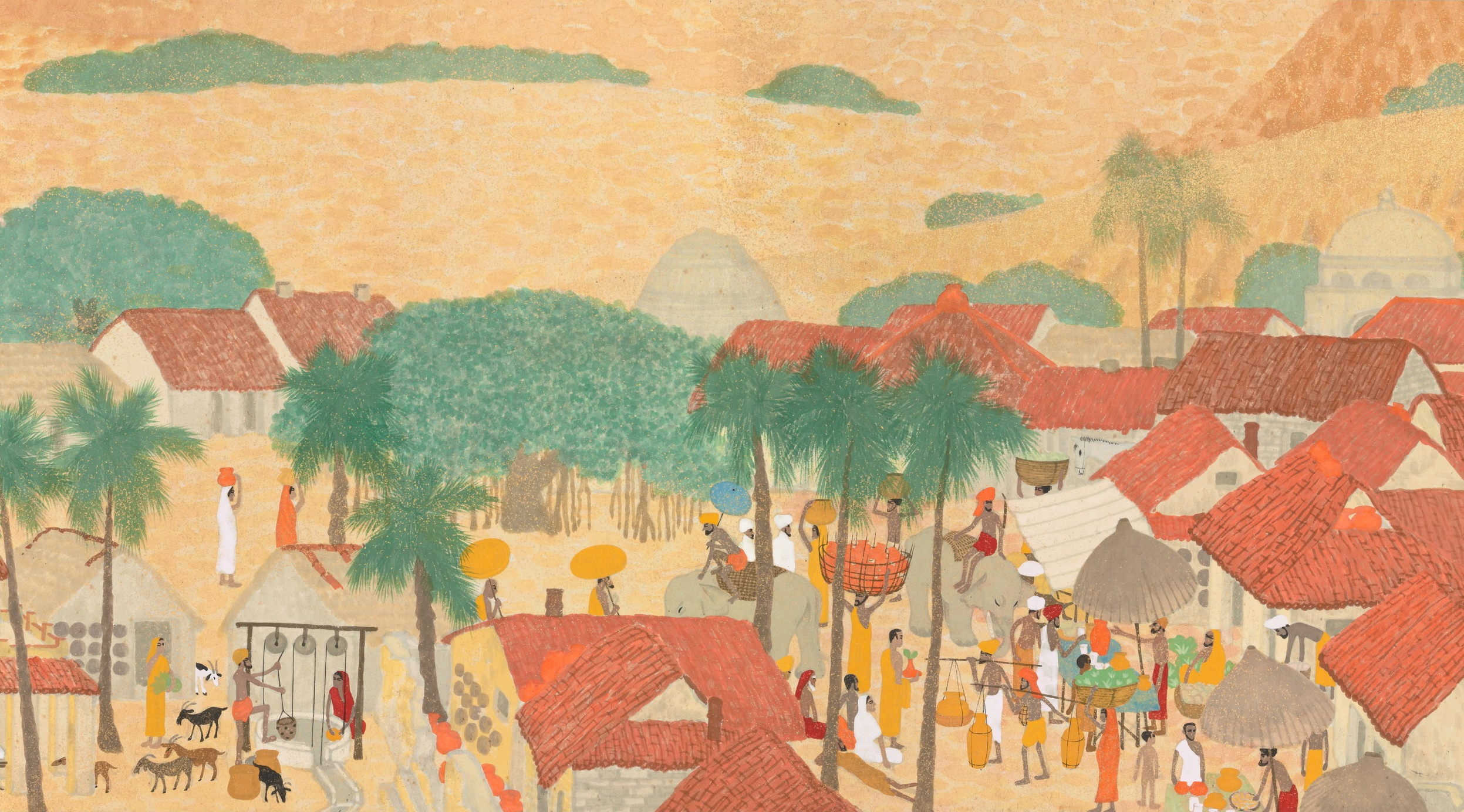 Sceneries in the Tropical Land, by Imamura Shiko, Tokyo National Museum, Japan